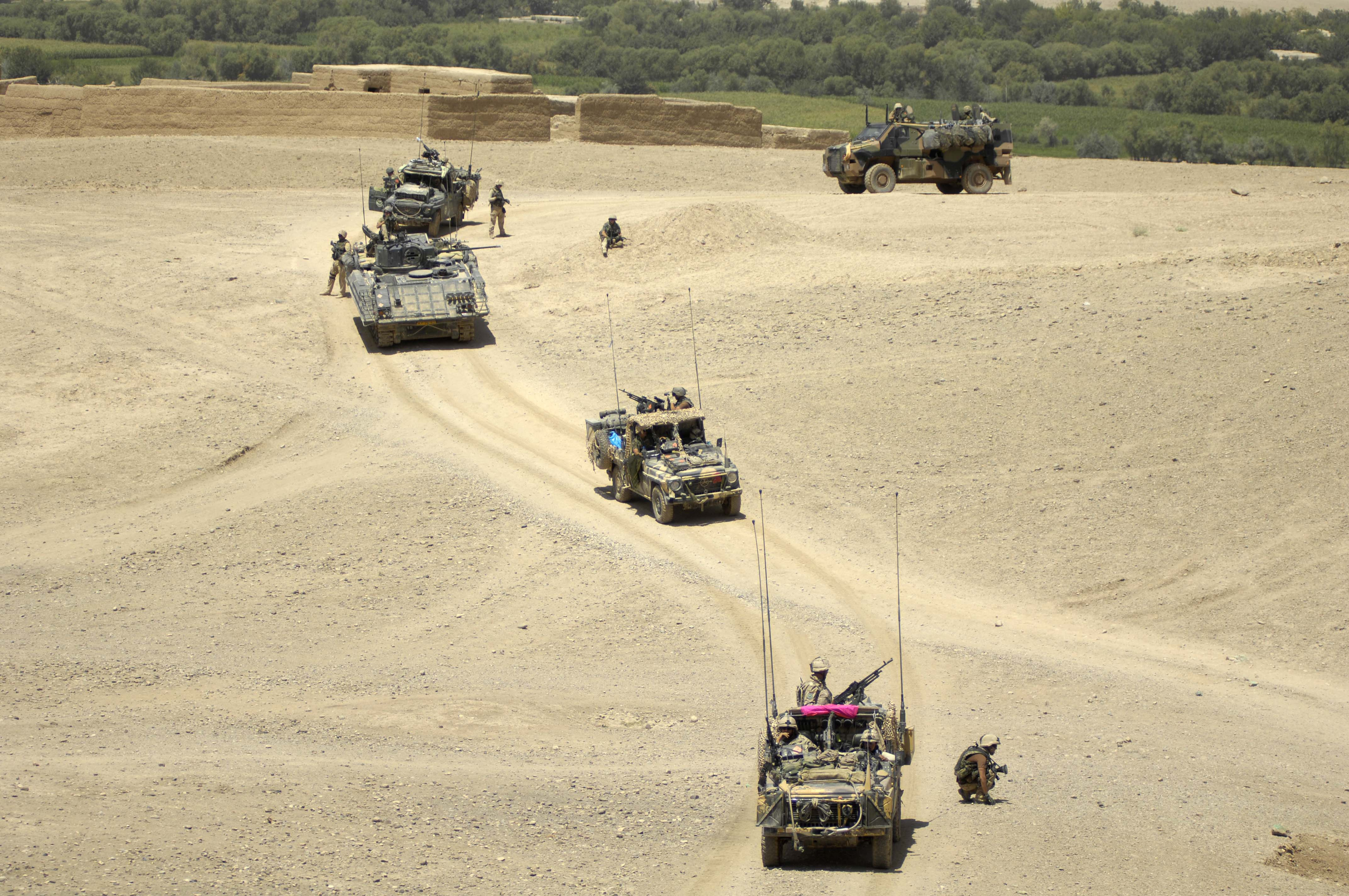 Gun trucks from 2nd Platoon, E-company, Battle Group-7, Task Force Uruzgan move toward an over-watch position near Mirabad. The platoon was on a 3-day International Security Assistance Force mission conducting foot patrols through villages to meet the Afghan people and build friendships, Aug. 19, 2008.